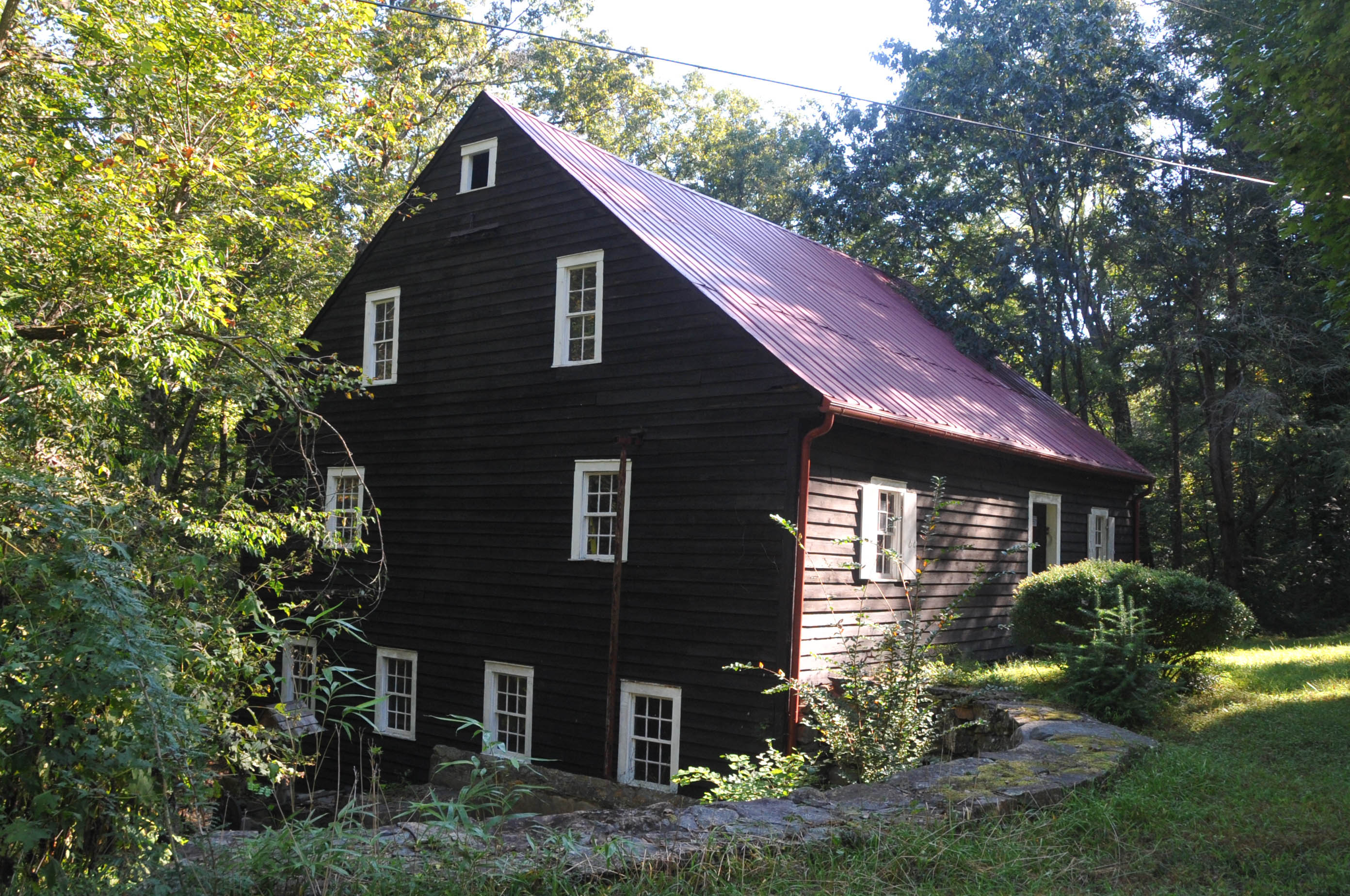 CIRCA 1807; BUILT INTO AN EMBANKMENT OVERLOOKING TERRELL’S CREEK